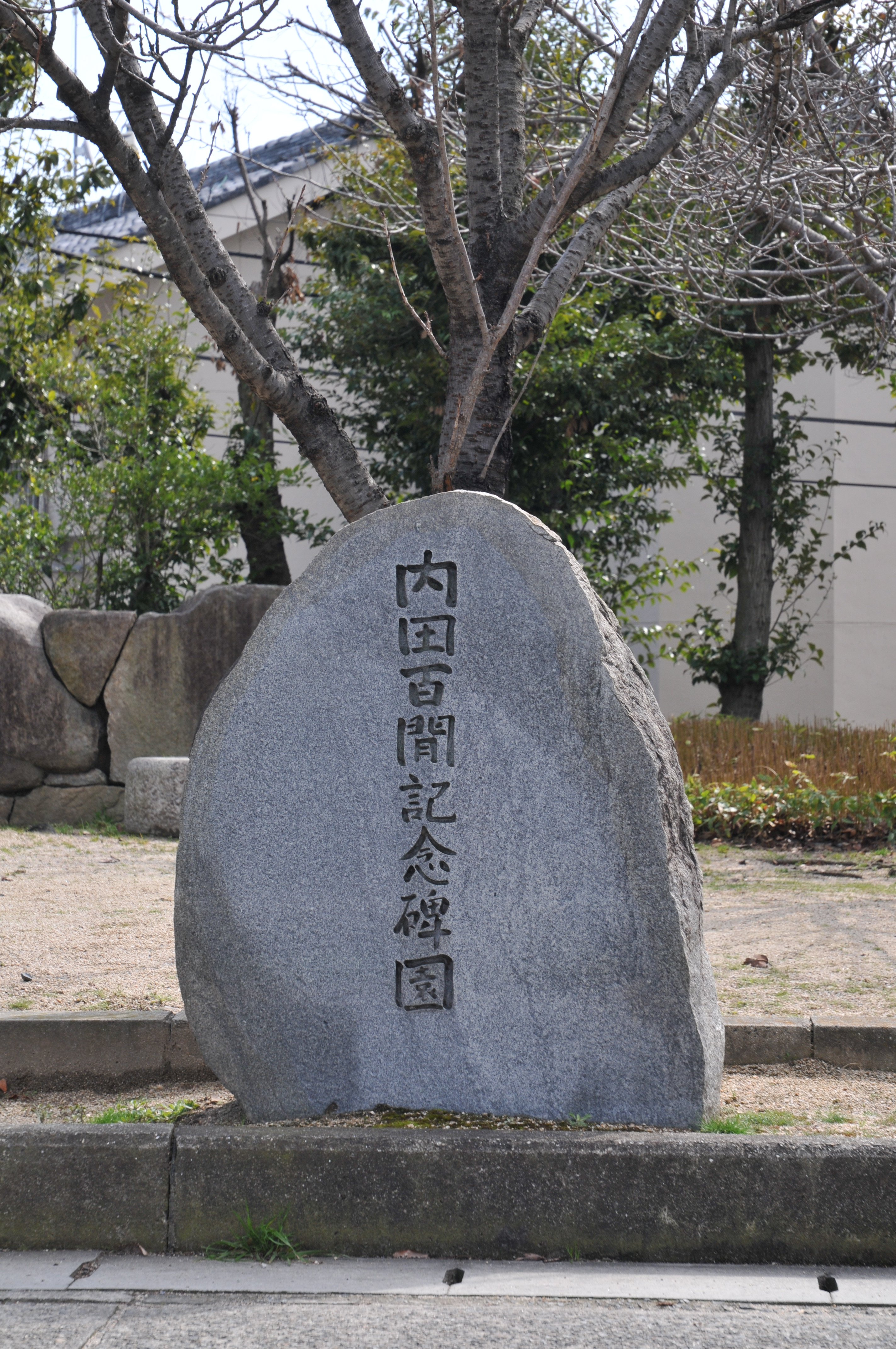 monument of Uchida Hyakken